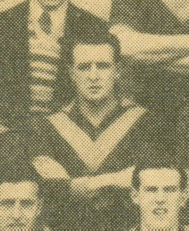 Photo of Laurie Gallagher in 1945